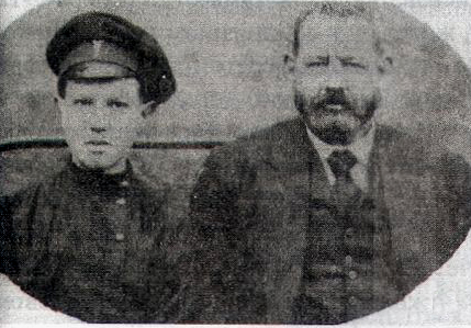 Nikolai Bogdanov, a member of the second Russian State Duma with his son Konstantin.